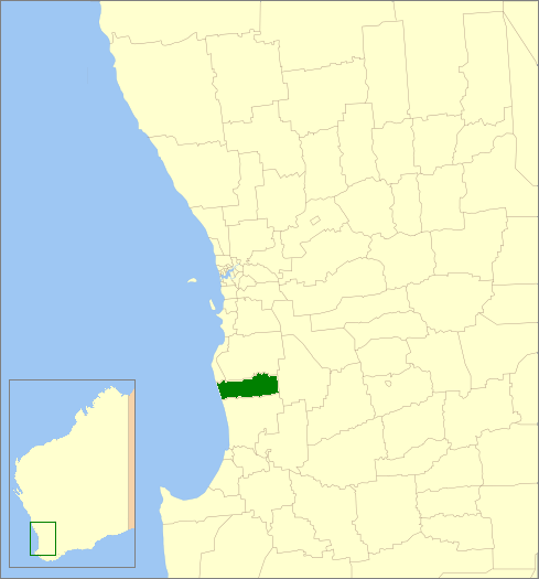 Description=Location of the Local Government Area in Western Australia